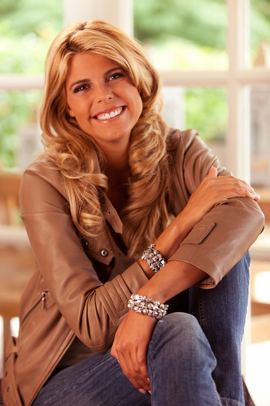 Shot of Dutch model, television host, actress, licence holder for Miss Universe Holland and Germany and the licence holder for Miss World Holland and Mister Holland